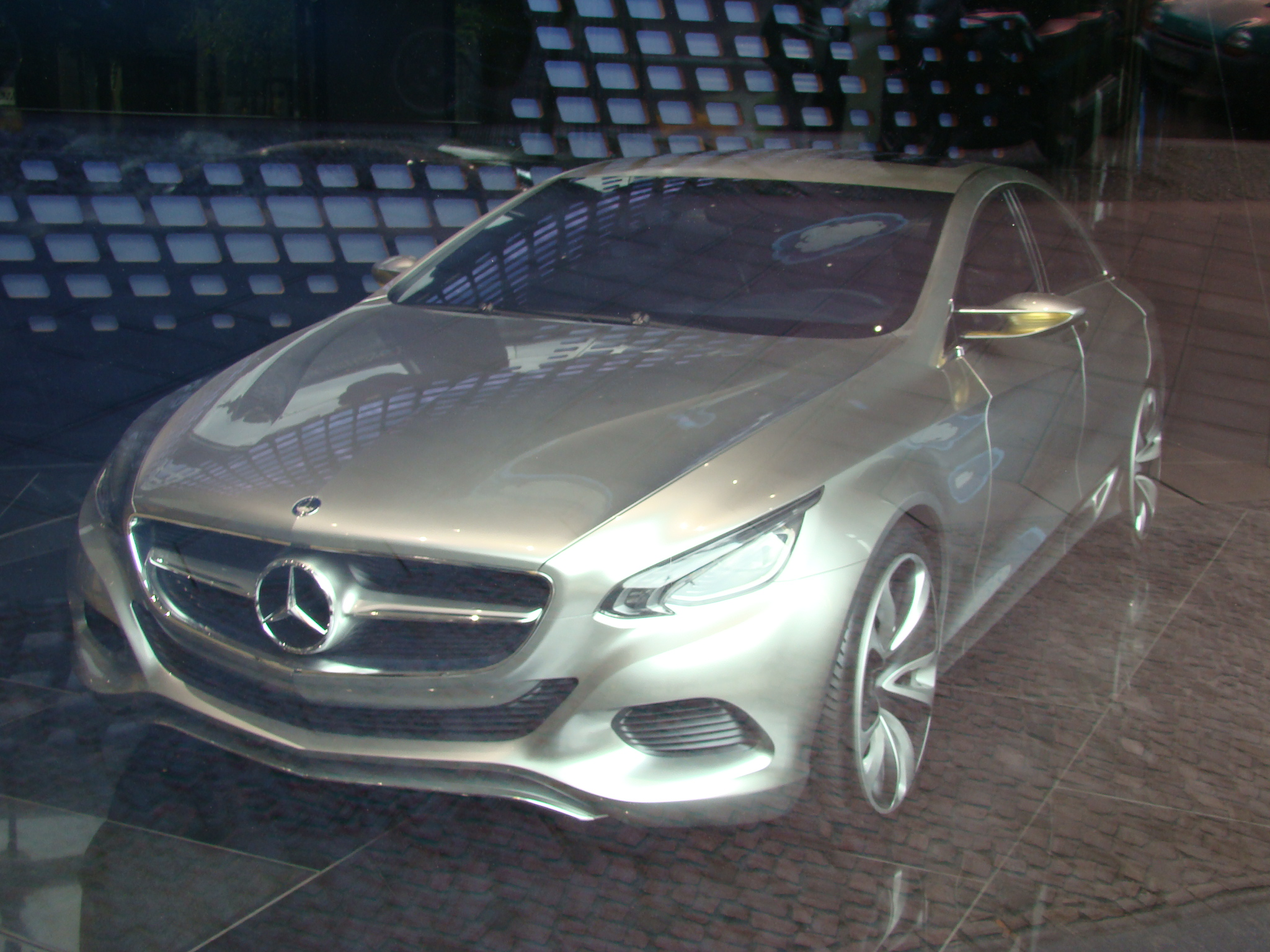 Mercedes-Benz F800